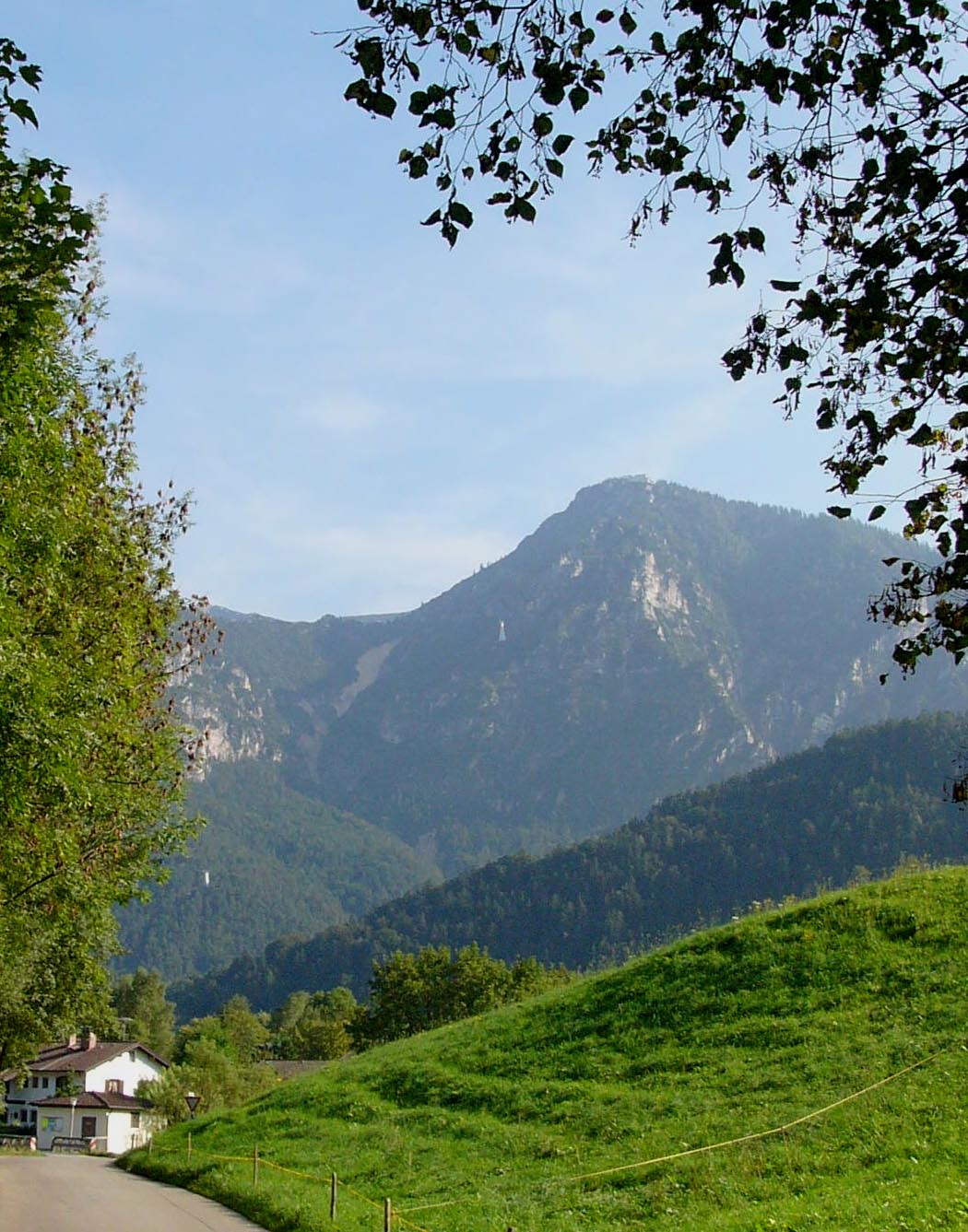 Description: Predigtstuhl, mountain near Bad Reichenhall, Germany Source: self made Uploader: User:Nikater Date: October 2, 2006 Other Versions: none License status